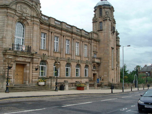 An exterior view of Hamilton Library, prior to its refurbishment in 2002.